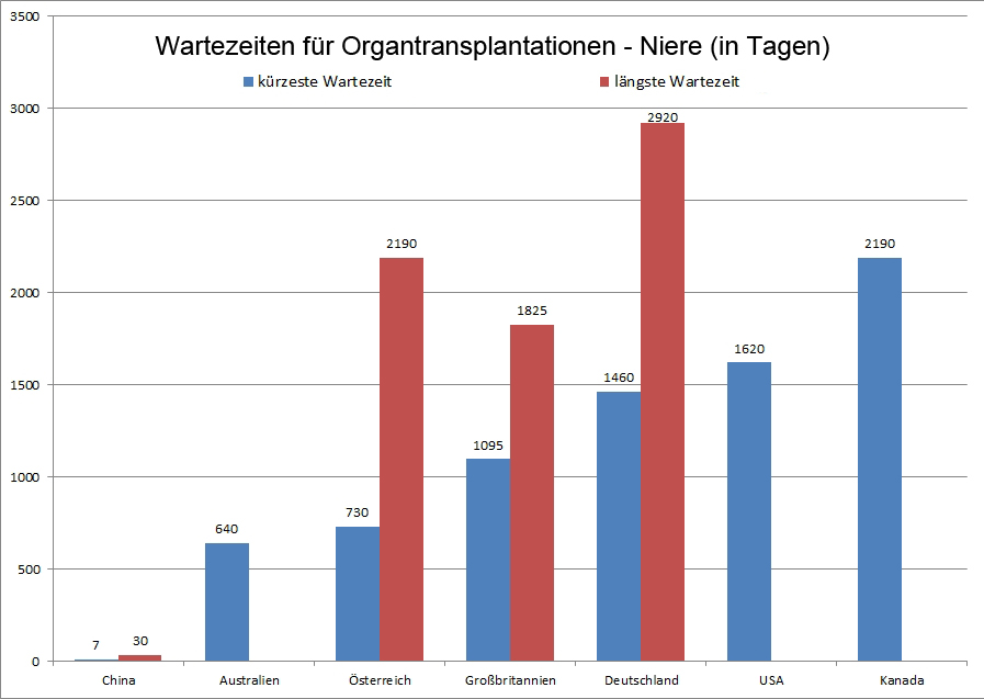 Waiting times for organ transplant